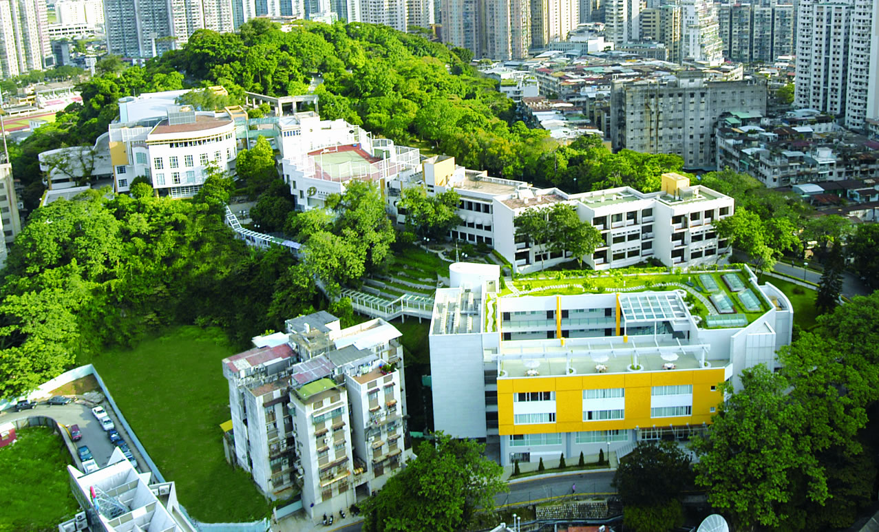 Bird Eye View of Instituto de Formação Turística